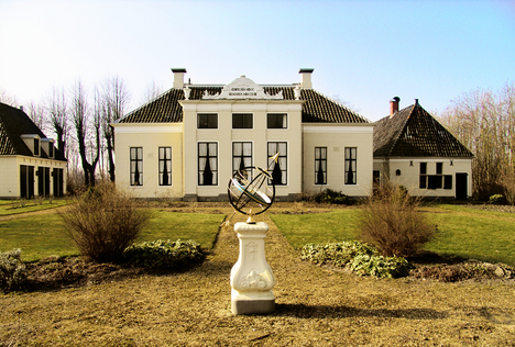 The castle Rensumaborg in Uithuizermeeden, Groningen.